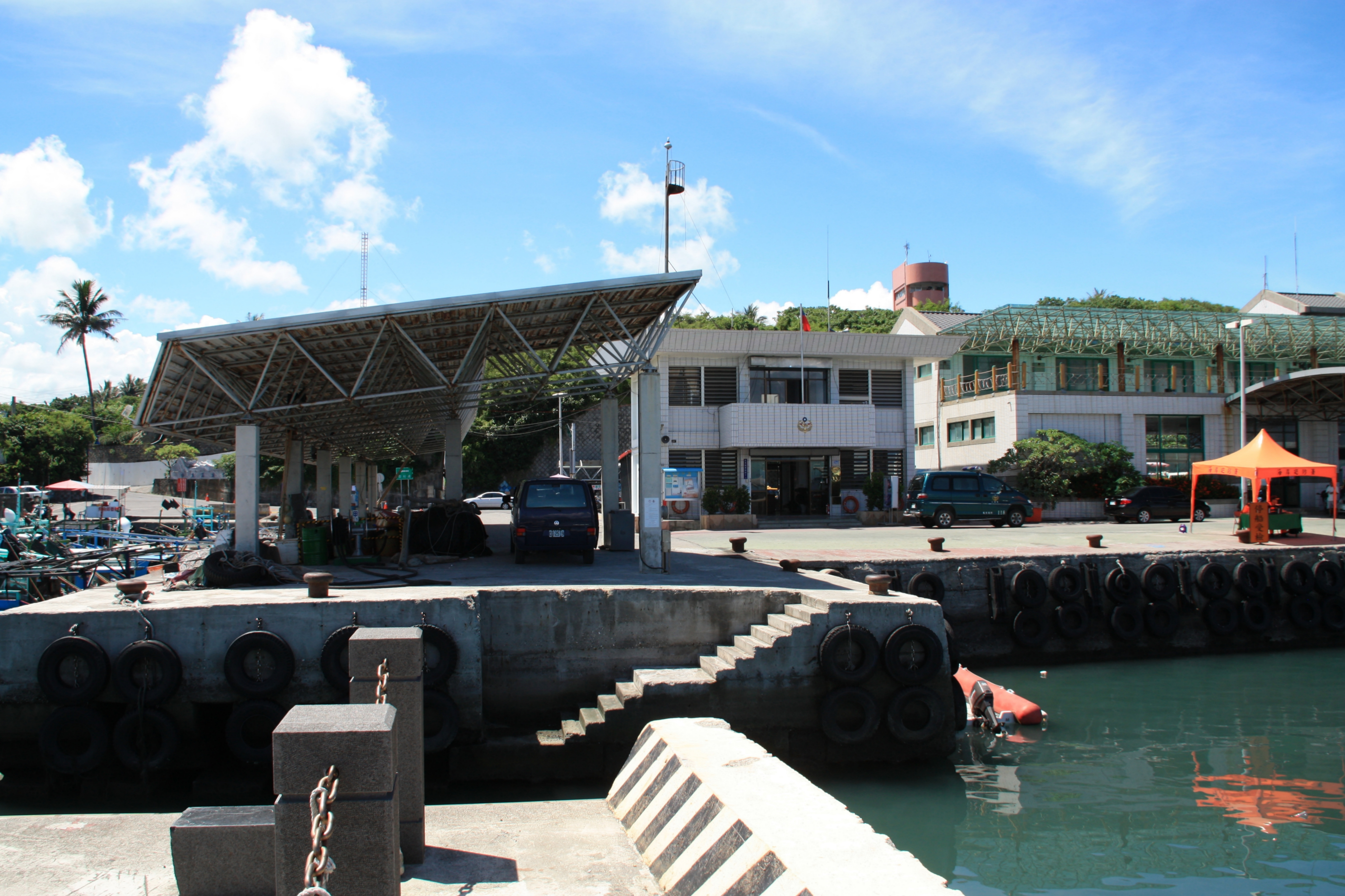 Taitung County Taitung City FùGāng fishing port Starting point for boat trips to Lǜ Dǎo (Green Island)